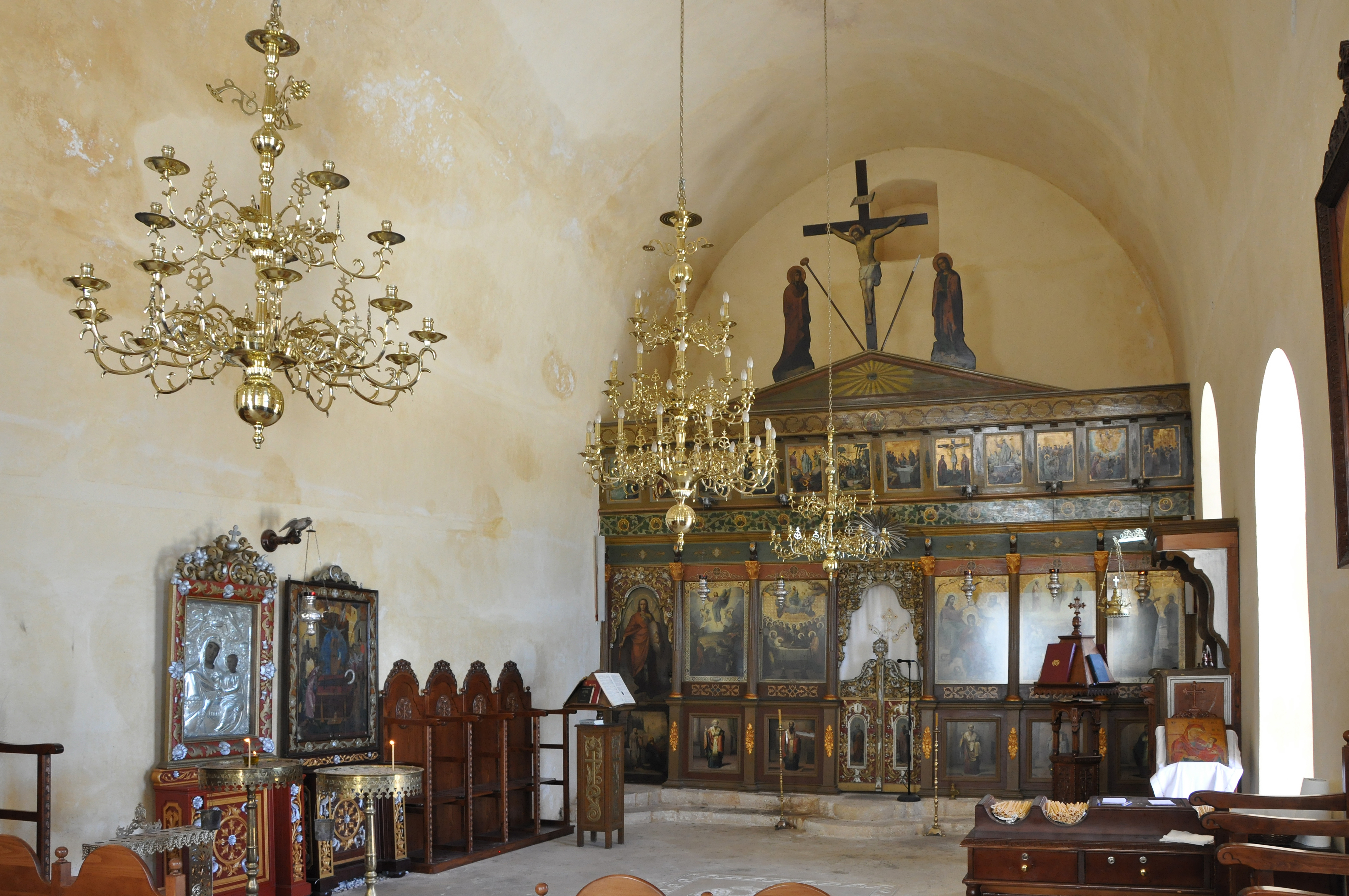 Crete (Greece): Chrysoskalitissa monastery, interior of the church